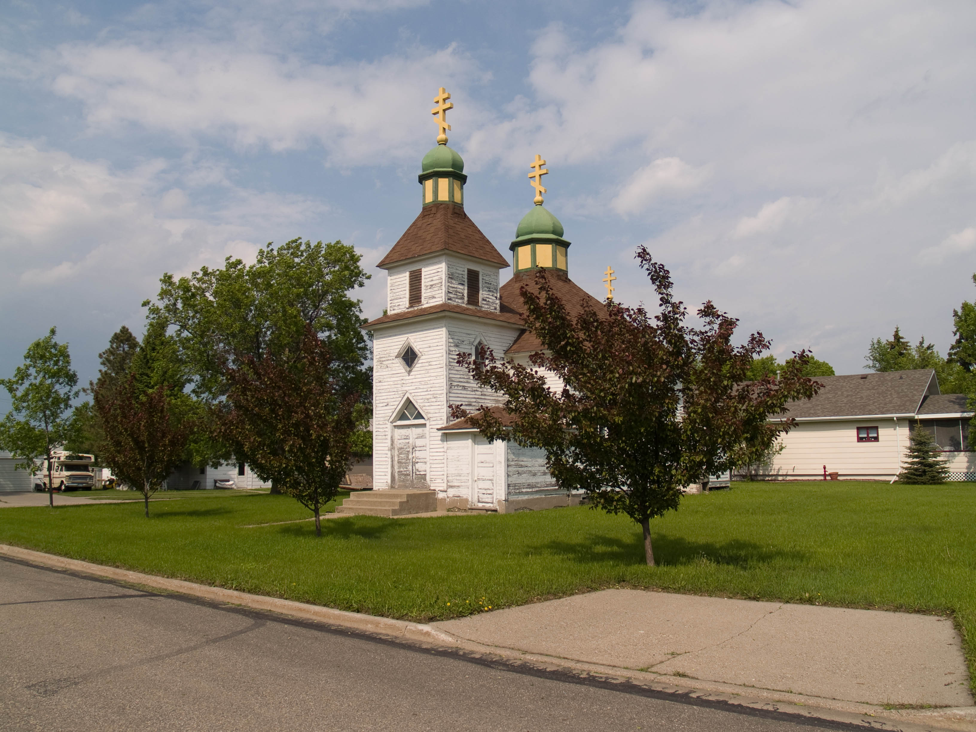 Eastern Orthodox church in Wilton, North Dakota. From